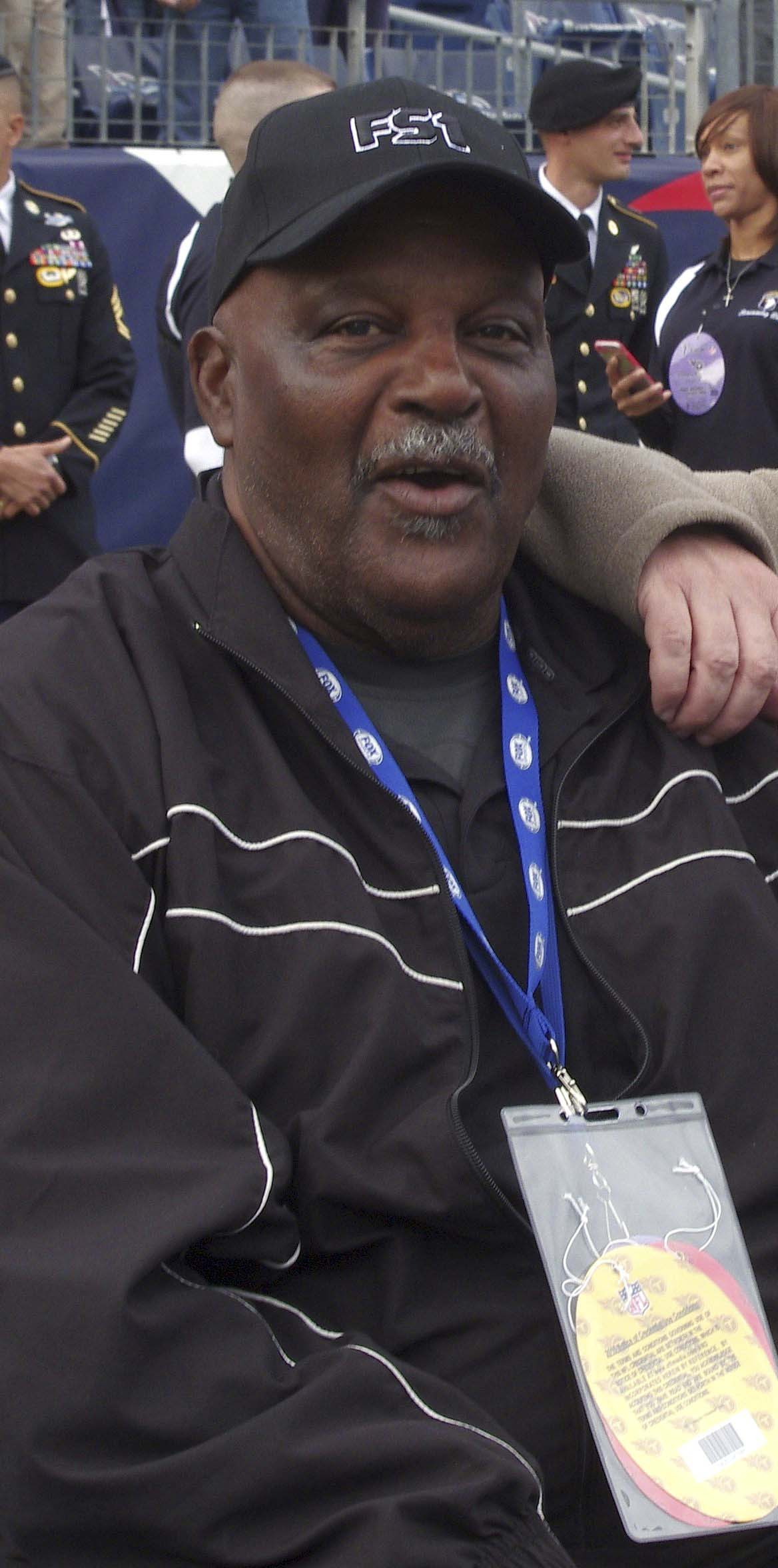 Former college football coach Kenneth Pettiford in Nashville, Tennessee, on Nov. 15, 2015. Photo by Logan Michael Wetzel